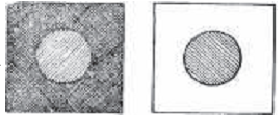 Figure-ground is another Gestalt psychology principle